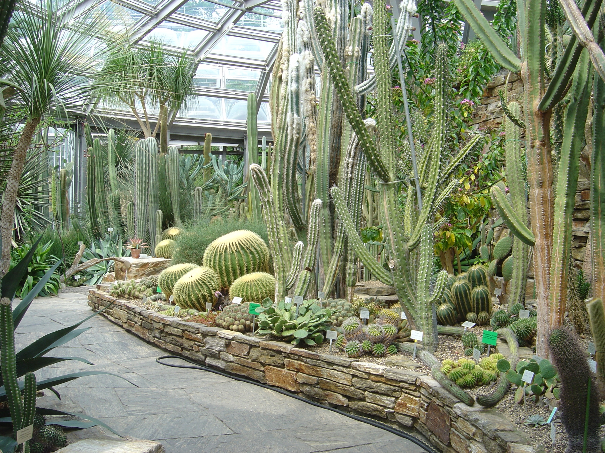 Cacti House